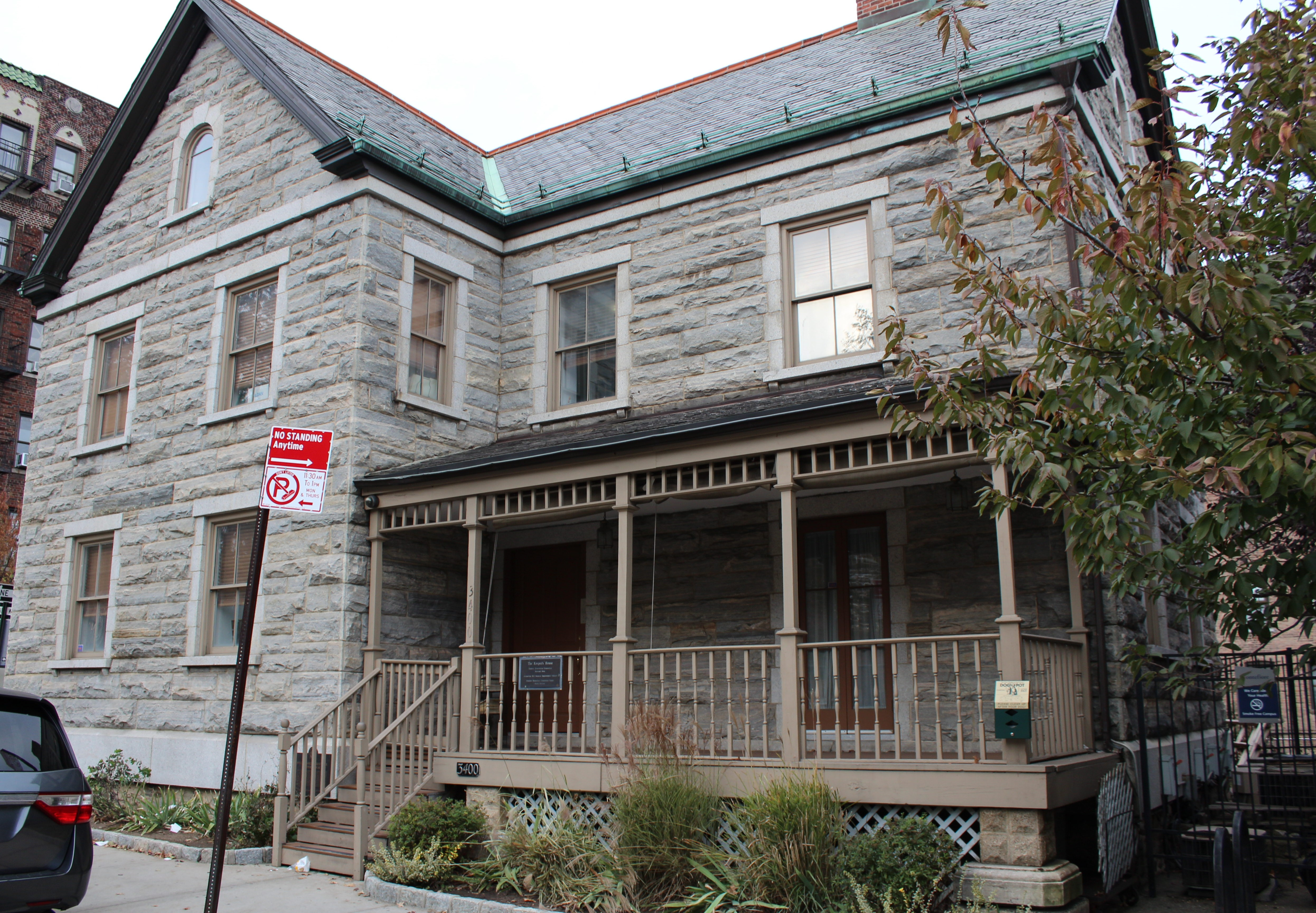 The headquarters for the Norwood News located at the Keeper's House at Williamsbridge Reservoir in the Bronx, NY.